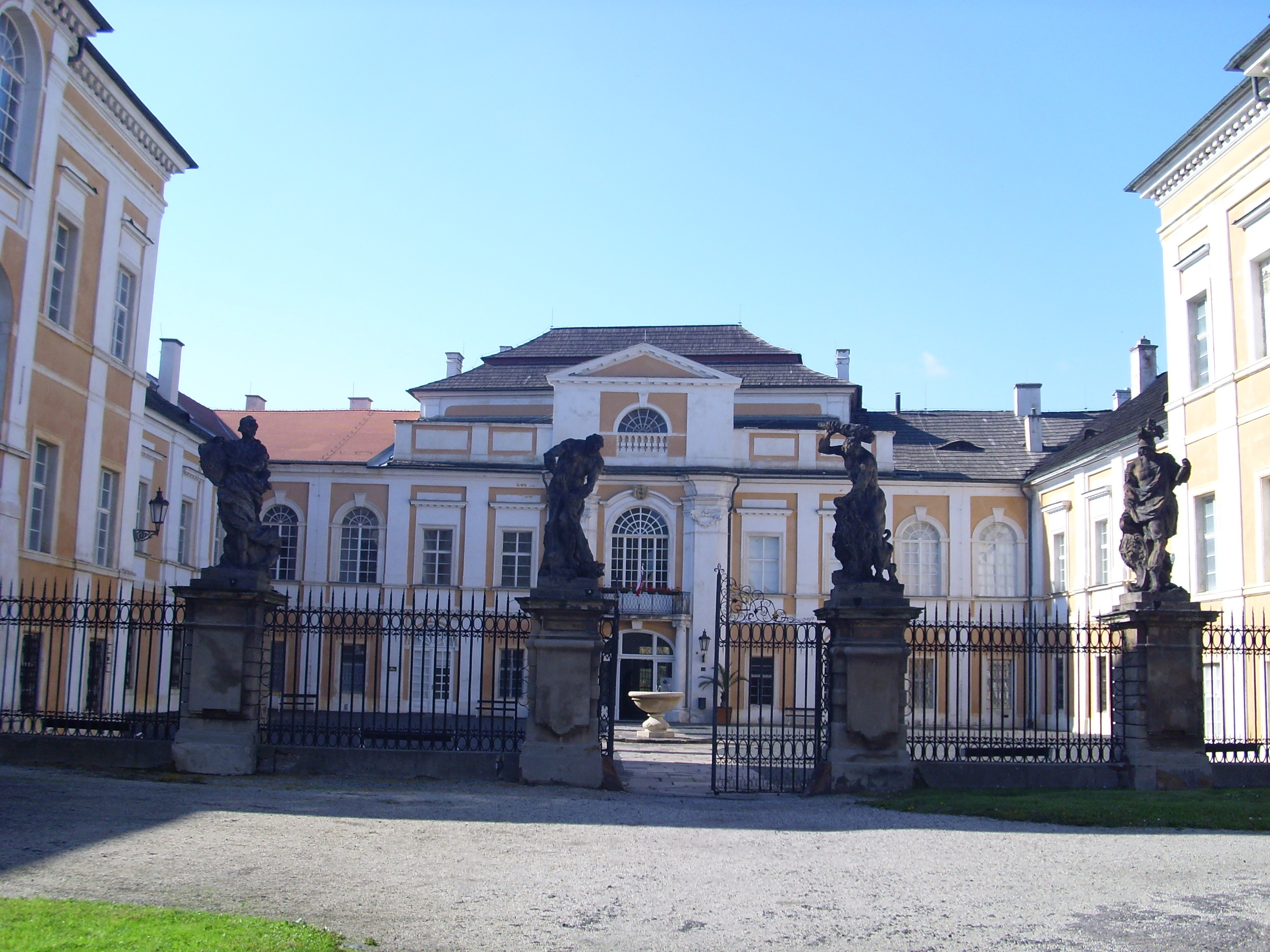 Front side of Duchcov castle in Czech Republic